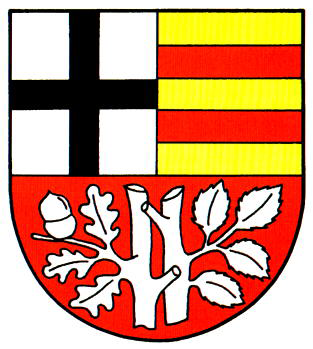 Coat of arms of the municipality of Dünsen